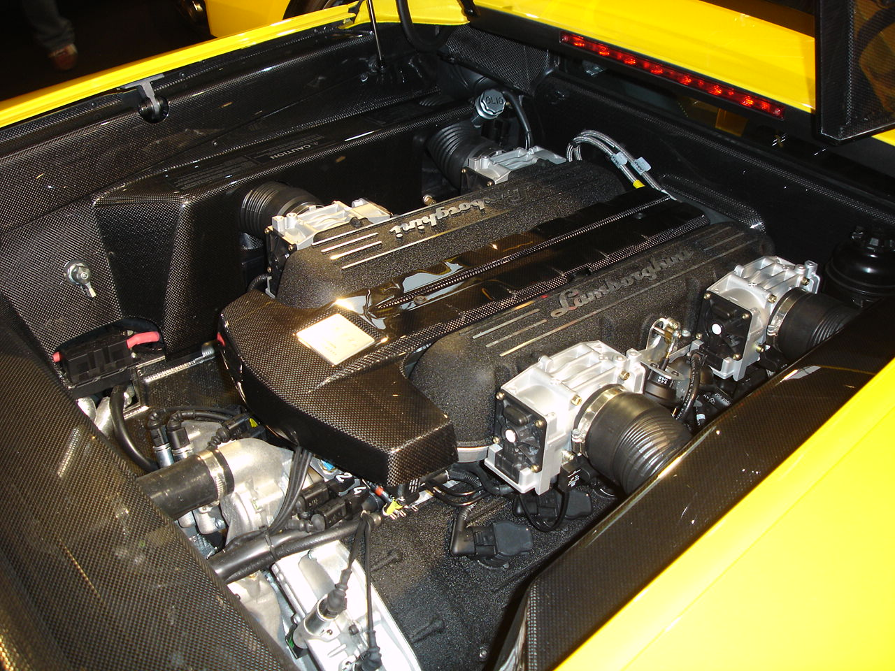 Lamborghini Murciélago LP640 V12 engine